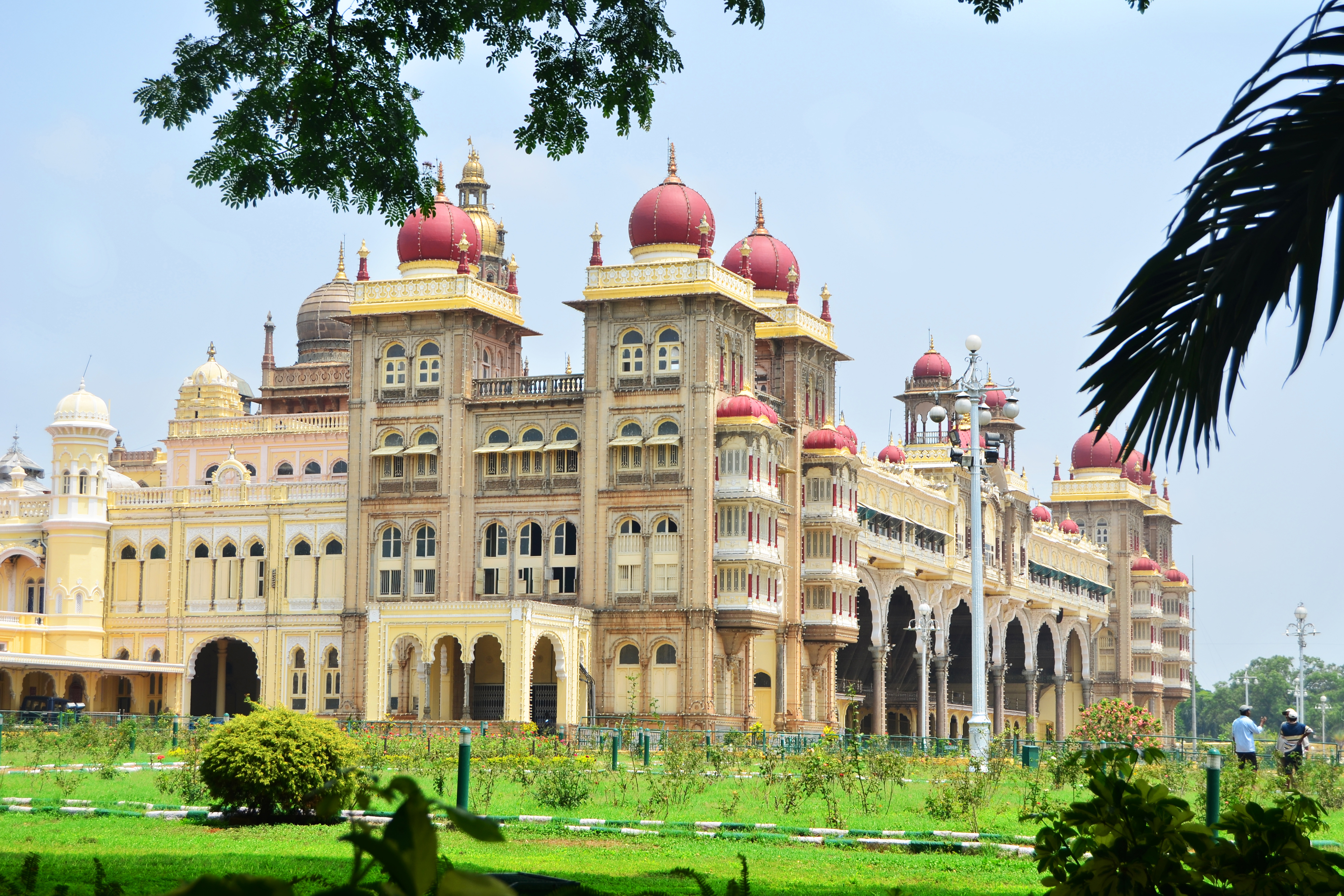 MYSORE PALACE SIDE FULL VIEW